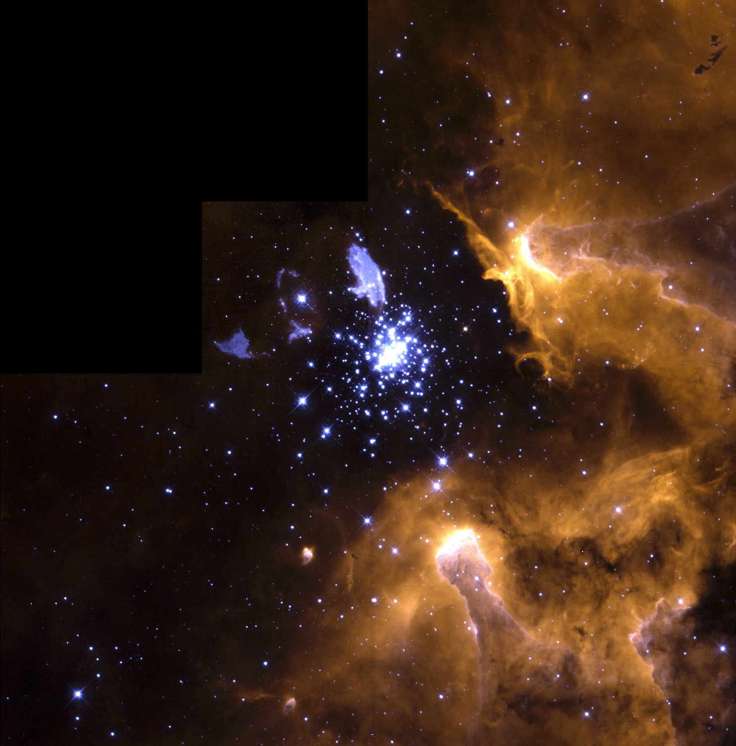 In this stunning picture of the giant galactic nebula NGC 3603, the crisp resolution of NASA's Hubble Space Telescope captures various stages of the life cycle of stars in one single view. To the upper left of center is the evolved blue supergiant called Sher 25. The star has a unique circumstellar ring of glowing gas that is a galactic twin to the famous ring around the supernova 1987A. The grayish-bluish color of the ring and the bipolar outflows (blobs to the upper right and lower left of the star) indicates the presence of processed (chemically enriched) material. Near the center of the view is a so-called starburst cluster dominated by young, hot Wolf-Rayet stars and early O-type stars. A torrent of ionizing radiation and fast stellar winds from these massive stars has blown a large cavity around the cluster. The most spectacular evidence for the interaction of ionizing radiation with cold molecular-hydrogen cloud material are the giant gaseous pillars to the right of the cluster. These pillars are sculptured by the same physical processes as the famous pillars Hubble photographed in the M16 Eagle Nebula. Dark clouds at the upper right are so-called Bok globules, which are probably in an earlier stage of star formation. To the lower left of the cluster are two compact, tadpole-shaped emission nebulae. Similar structures were found by Hubble in Orion, and have been interpreted as gas and dust evaporation from possibly protoplanetary disks (proplyds). This true-color picture was taken on March 5, 1999 with the Wide Field Planetary Camera 2.